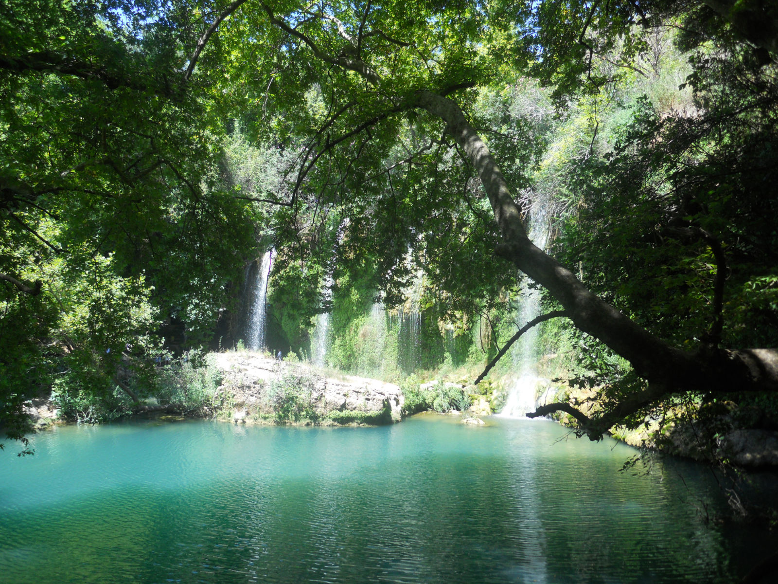 Kurşunlu Waterfall Nature Park